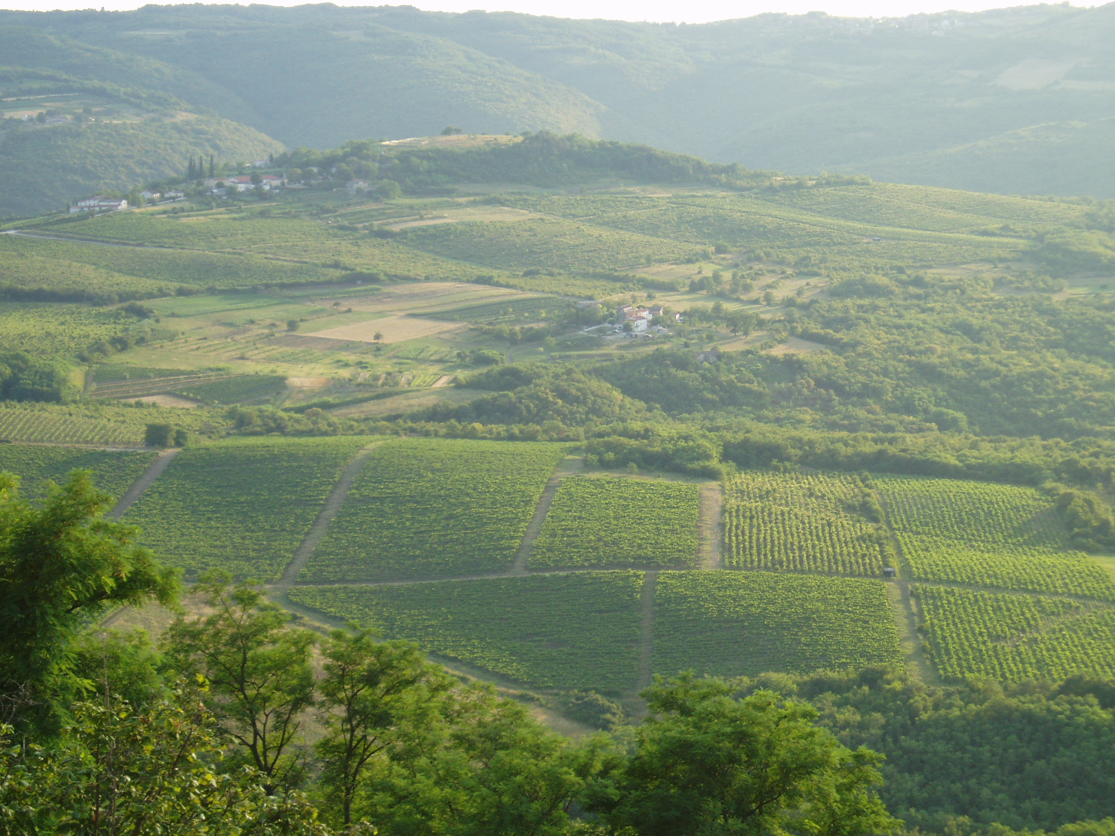 Landscape seen from Motovun